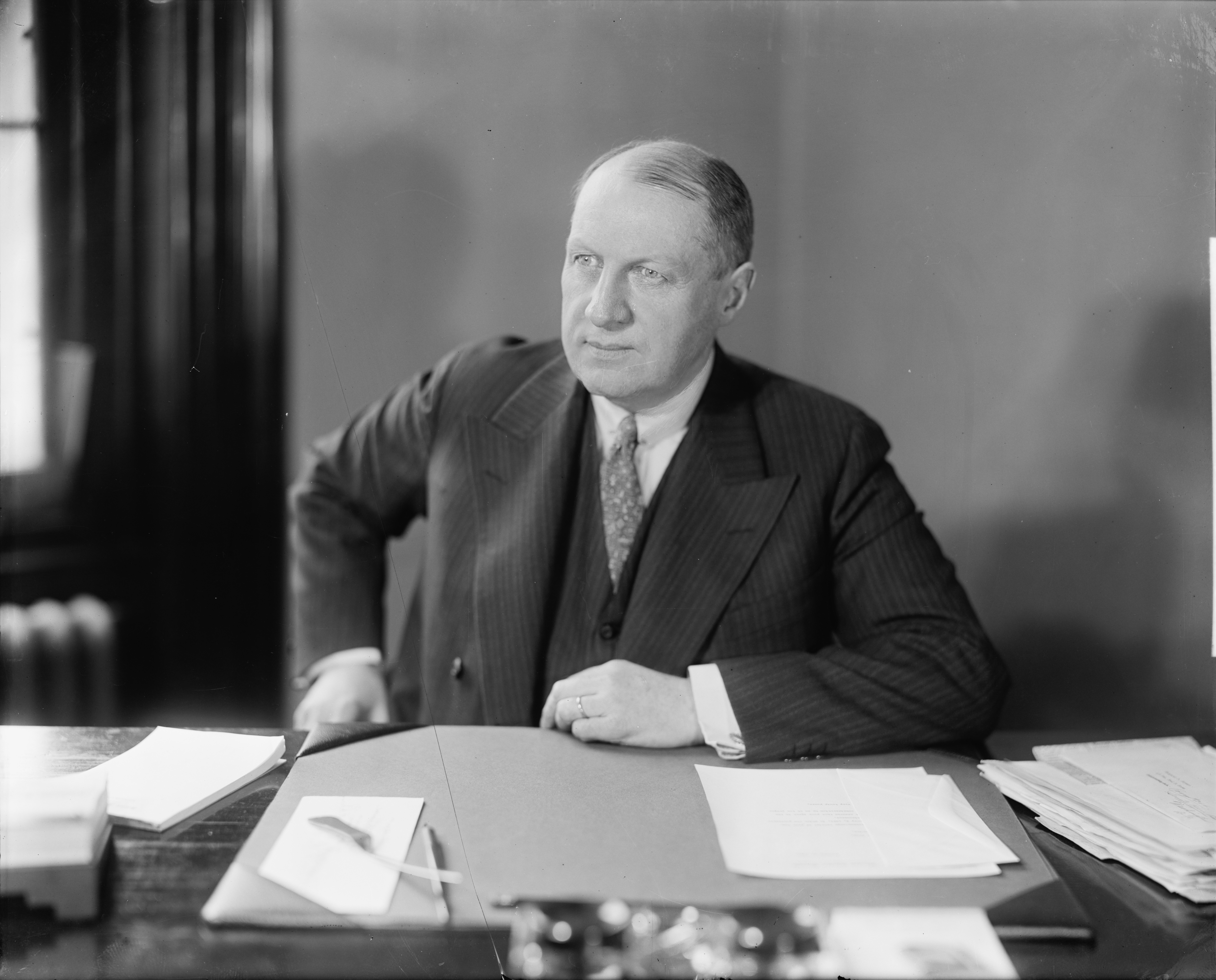 Fred H. Brown as Senator